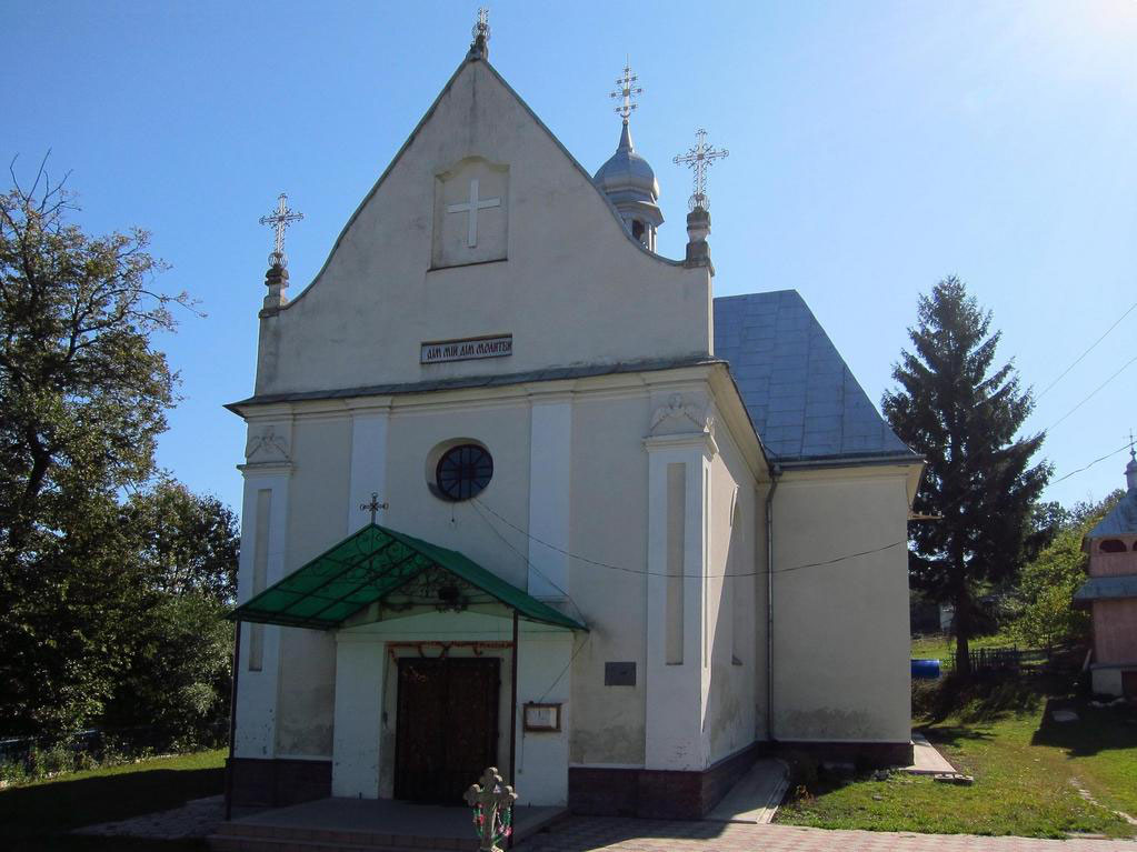 Church of the Holy Martyr Paraskeva Pyatnitsa in Dybshche (1873)